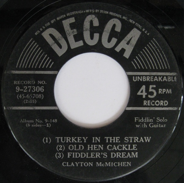 Turkey in the Straw, Old Hen Cackle and Fiddler's Dream by Clayton McMichen, Decca [year unknown].